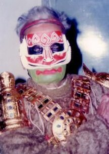 Koodiyattom Maestero Ammanur madhavachakyarFilmmaker